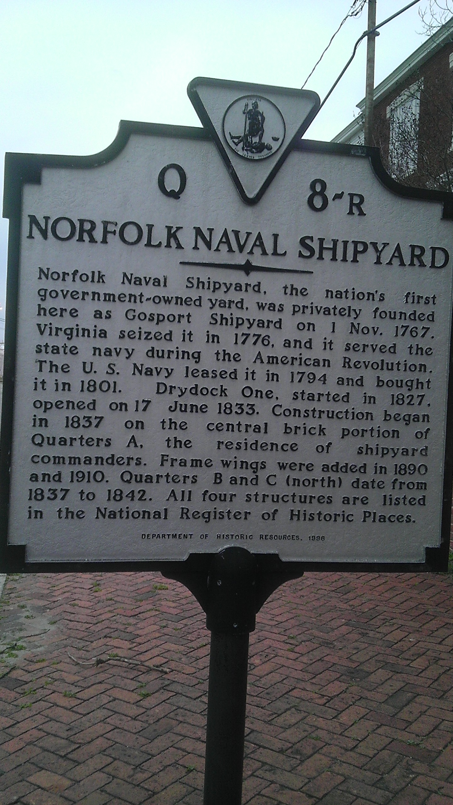 Historical marker for Norfolk Naval Shipyard in Portsmouth, Virginia.